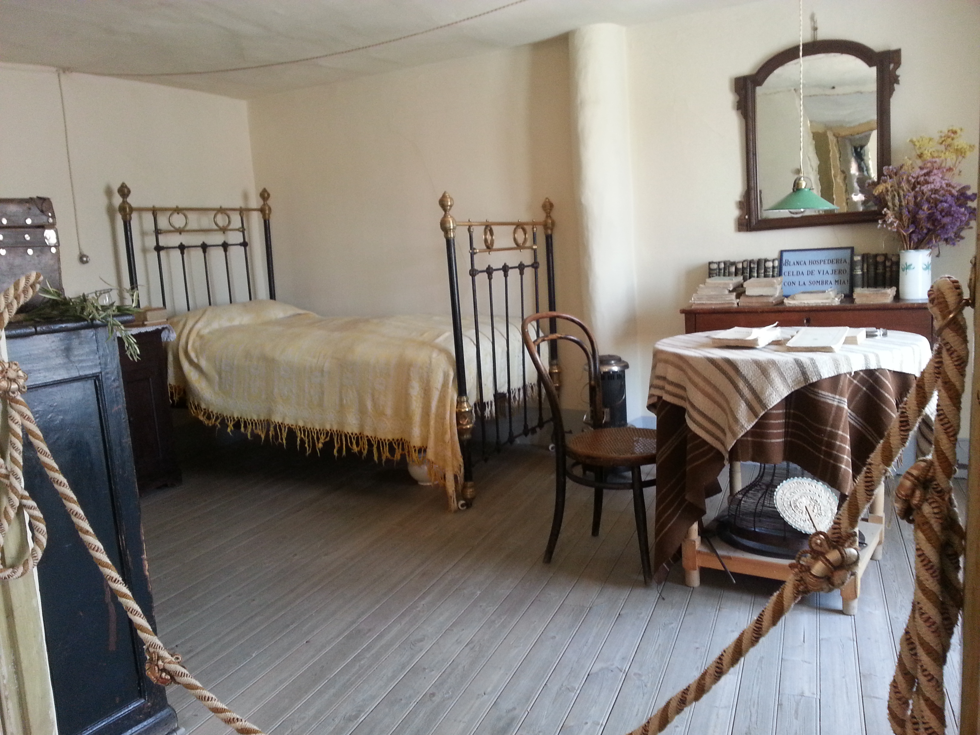 House-Museum of Antonio Machado, on calle de los Desamparados, 5 (Segovia); where he lived between 1919 and 1932 Spanish poet.